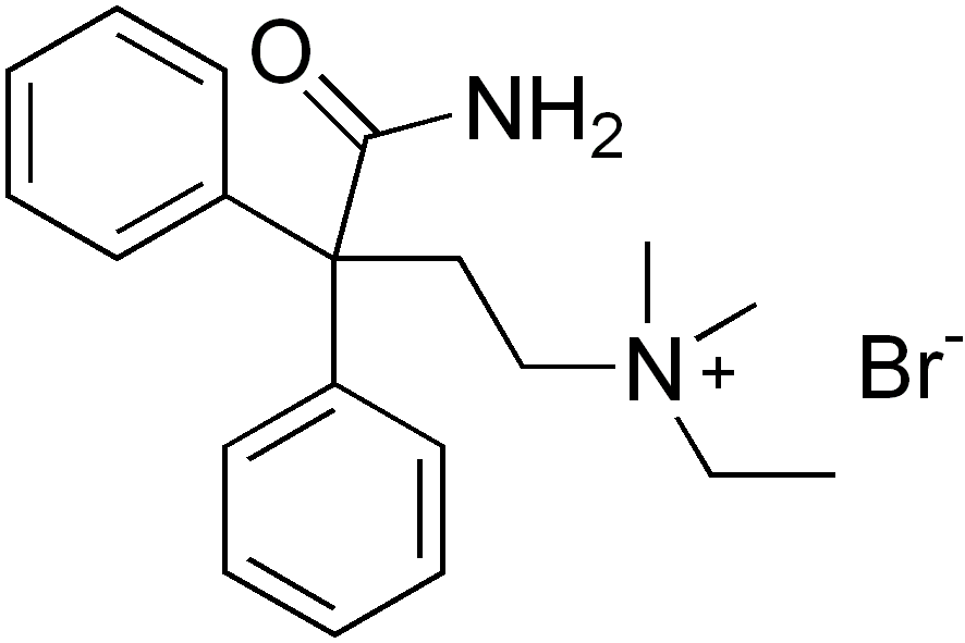 chemical structure of ambutonium bromide